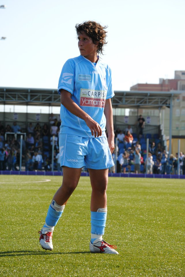 Roberta Filippozzi